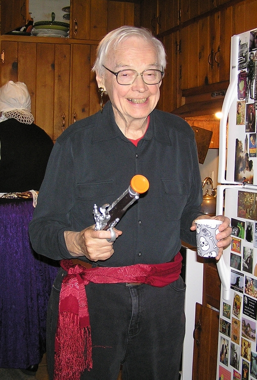 Fred Saberhagen is armed and dangerous (October 2005).